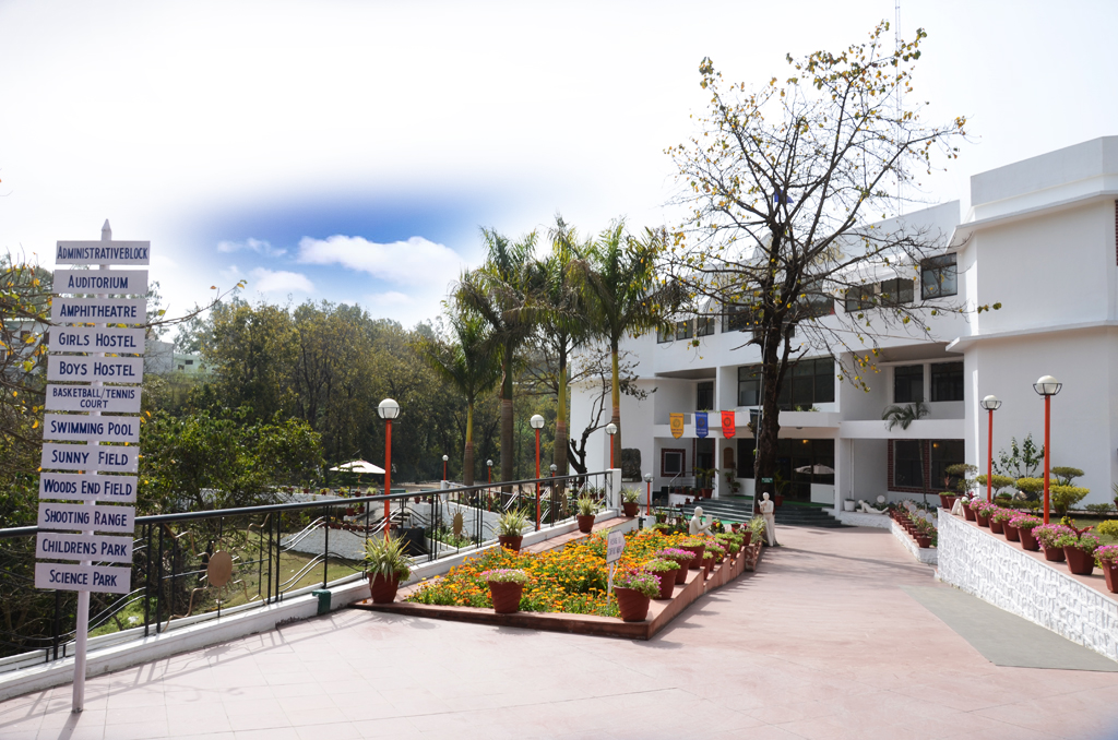 Academic block of The Aryan School, located at Dehradun India